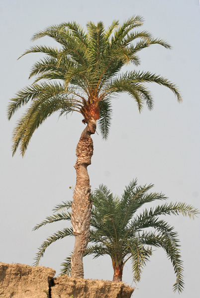 Wild Date Palm (Phoenix sylvestris) at Purbasthali in Bardhaman District of West Bengal, India.